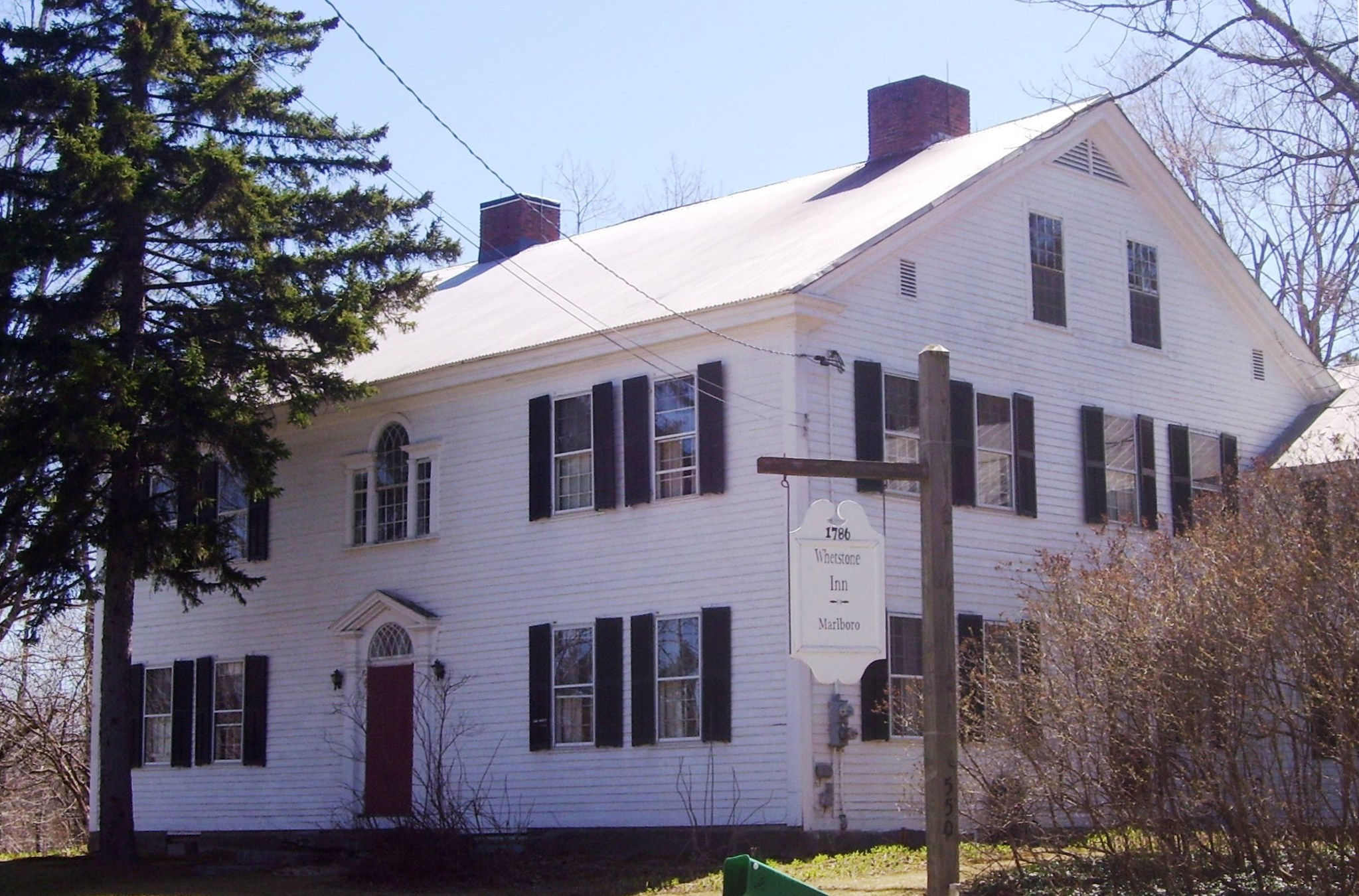 The Whetstone Inn on South Road in Marlboro, Vermont was built c.1775 by Deacon Jonas Whitney. (Source: Marlboro Historical Society website)